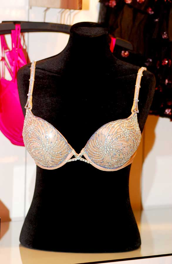 Victoria's Secret supermodel Adriana Lima showcased at Woodfield Mall, Schaumburg, IL, USA, on December 10, 2010, the $2 million Fantasy Bra designed by celebrity jeweler Damiani. Photo by Adam Bielawski